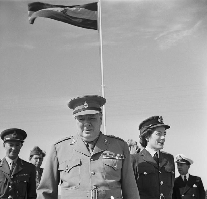 Winston Churchill with his daughter Sarah, on a visit to his old regiment, the 4th Queen's Own Hussars, in Egypt, 5 December 1943. The Prime Minister Winston Churchill wears the uniform of a full Colonel of the 4th Queen's Own Hussars beneath the regimental flag with his daughter, Sarah, and Lieutenant General Stone during his visit to the regiment on 5 December 1943.